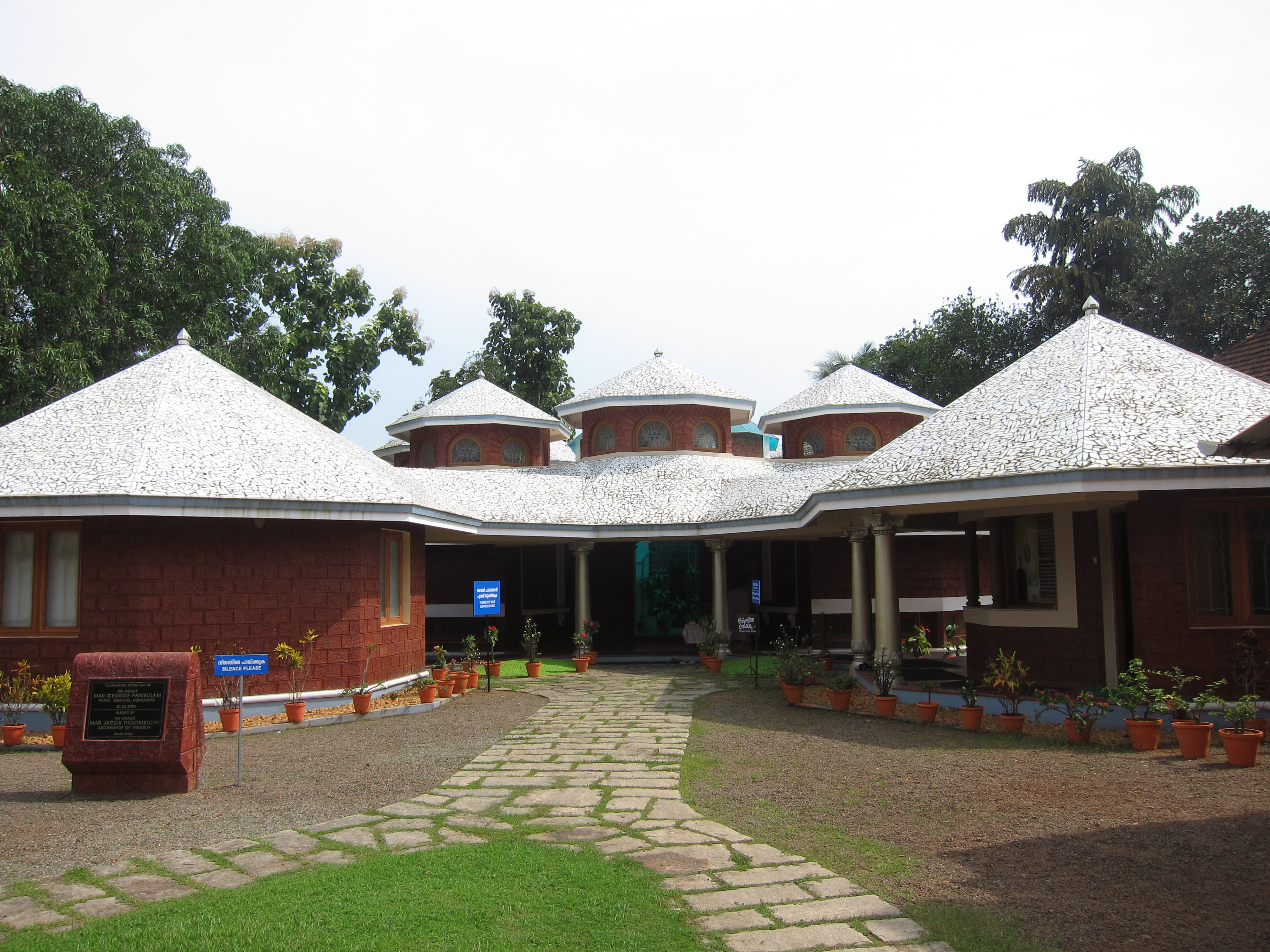 Mariam Thresia - മറിയം ത്രേസ്യ കുഴിക്കാട്ടുശ്ശേരിയിലെ മ്യൂസിയം